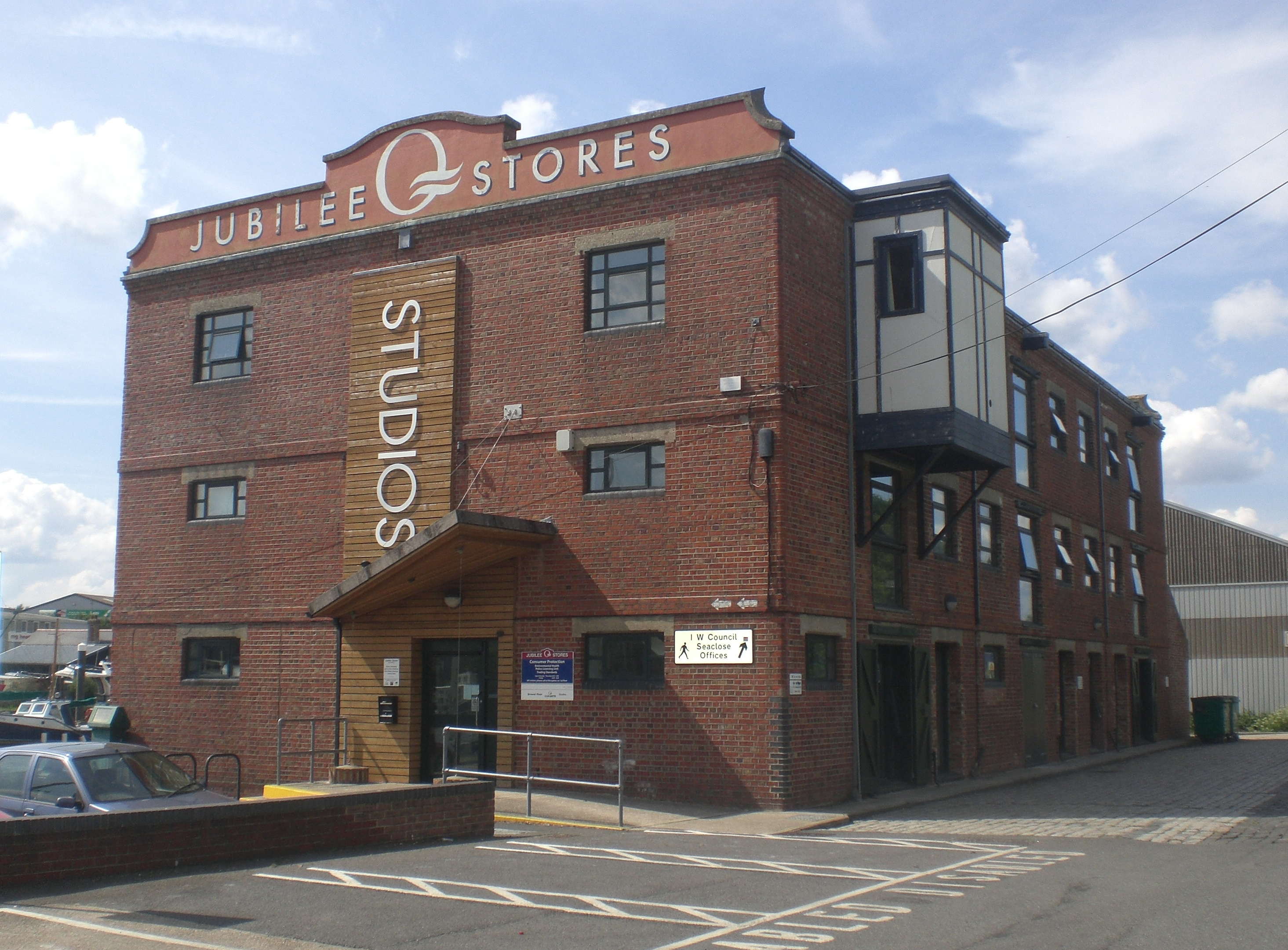 Jubilee Stores at Newport Quay.